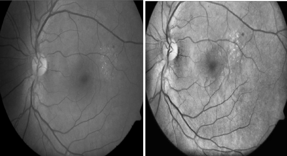 Histogram equlization